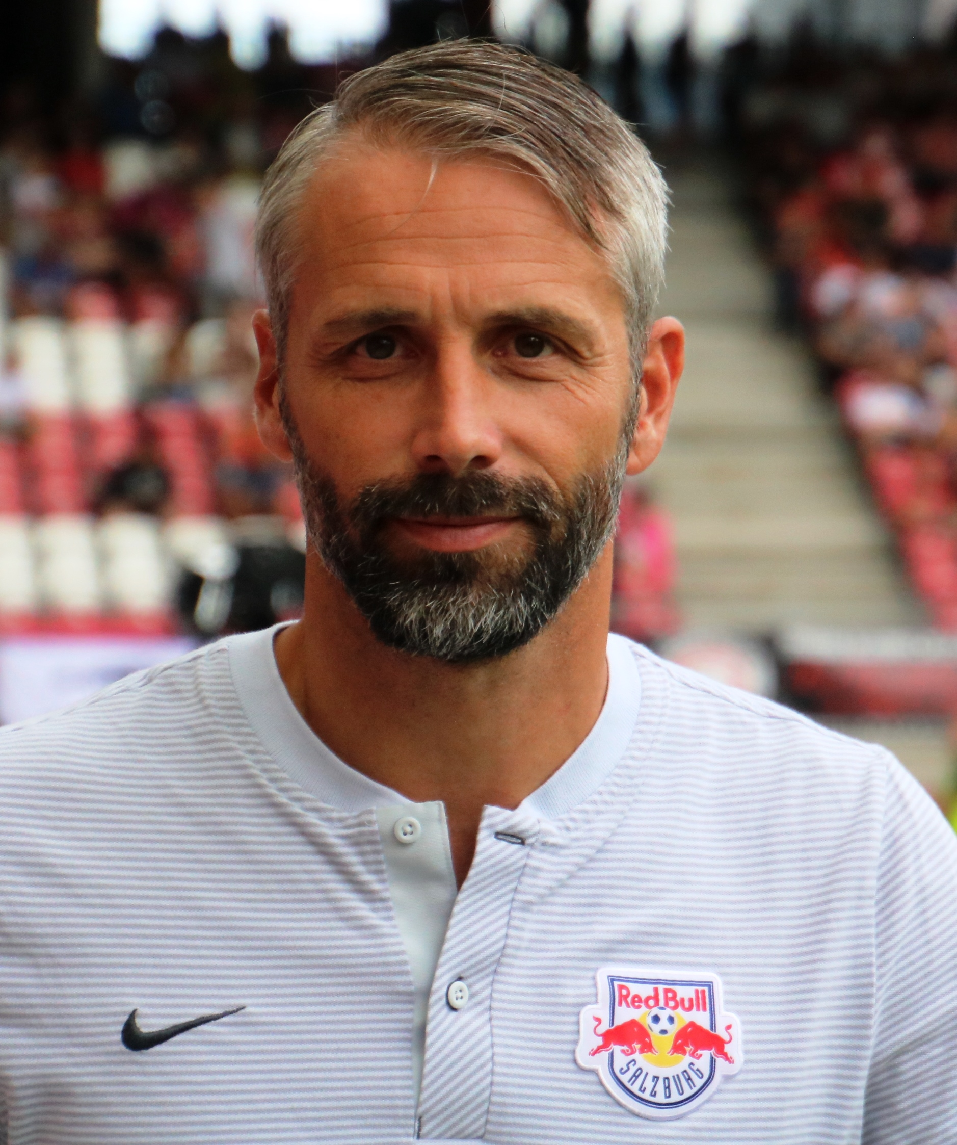 Austrian Bundesliga league match 3rd round